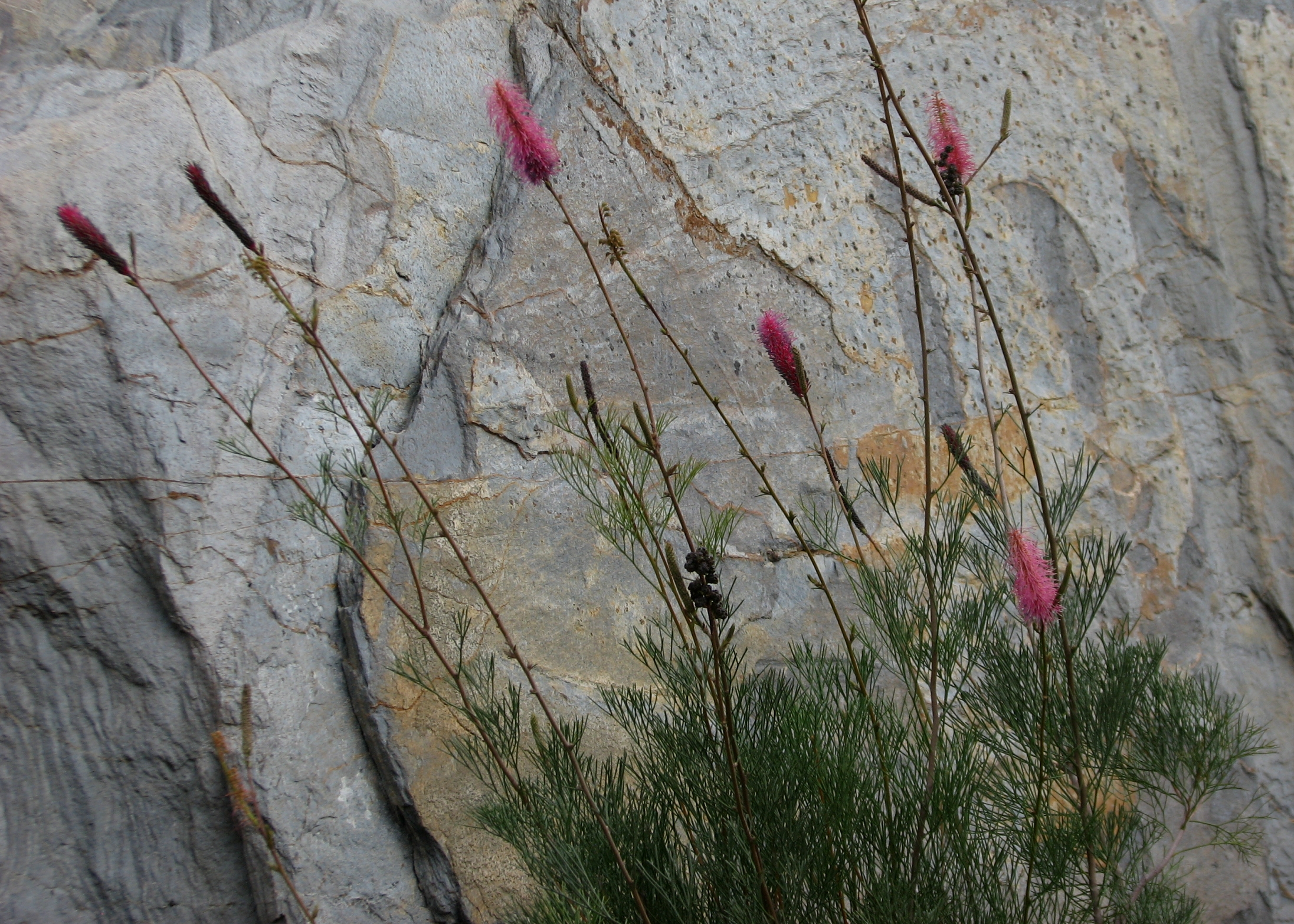 Grevillea petrophiloides (cultivated, labelled) , Royal Botanic Gardens Cranbourne, Victoria, Australia